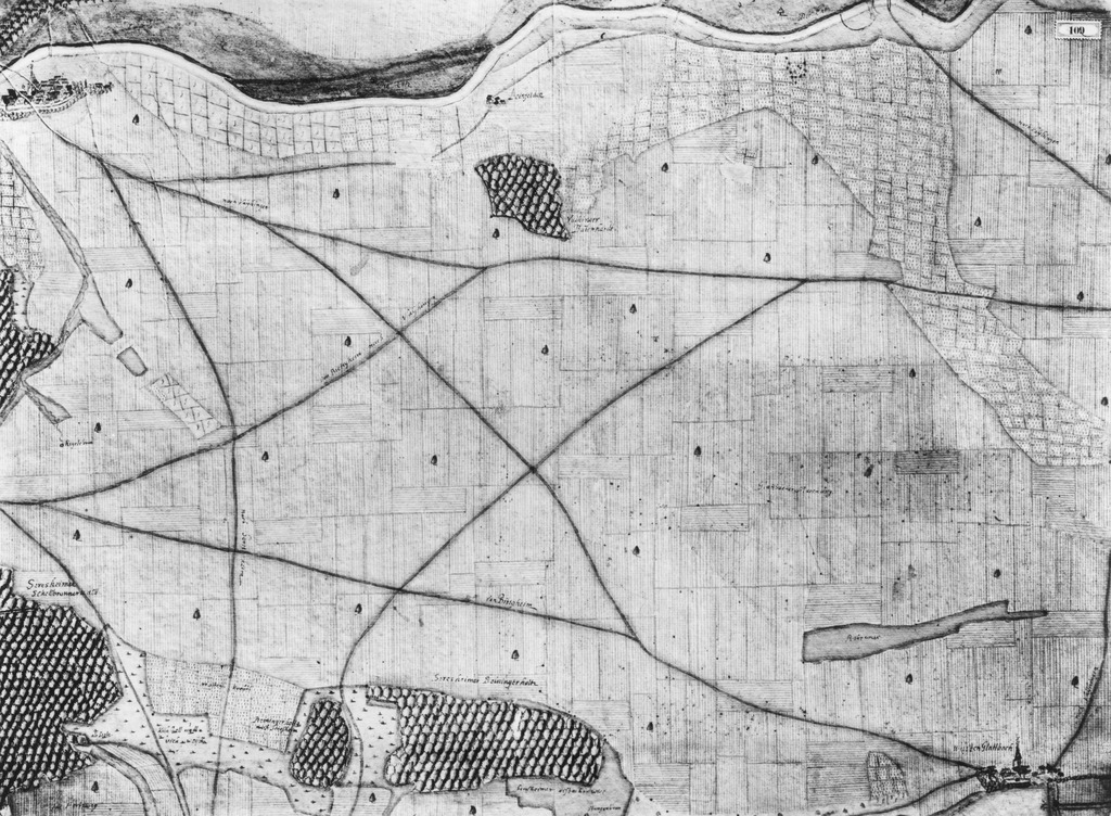 Clip of Andreas Kieser’s forest map